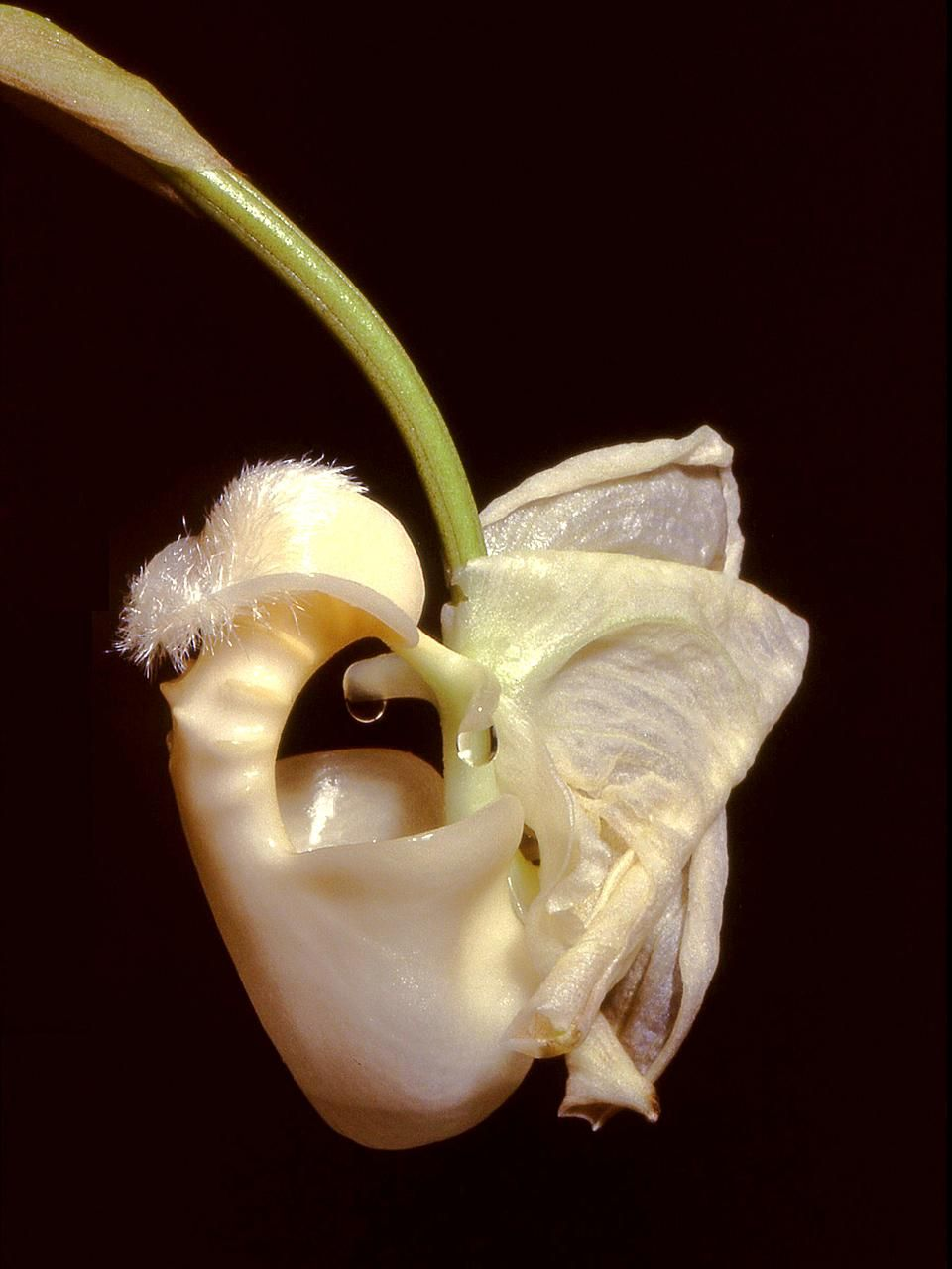 Coryanthes alborosea - flower